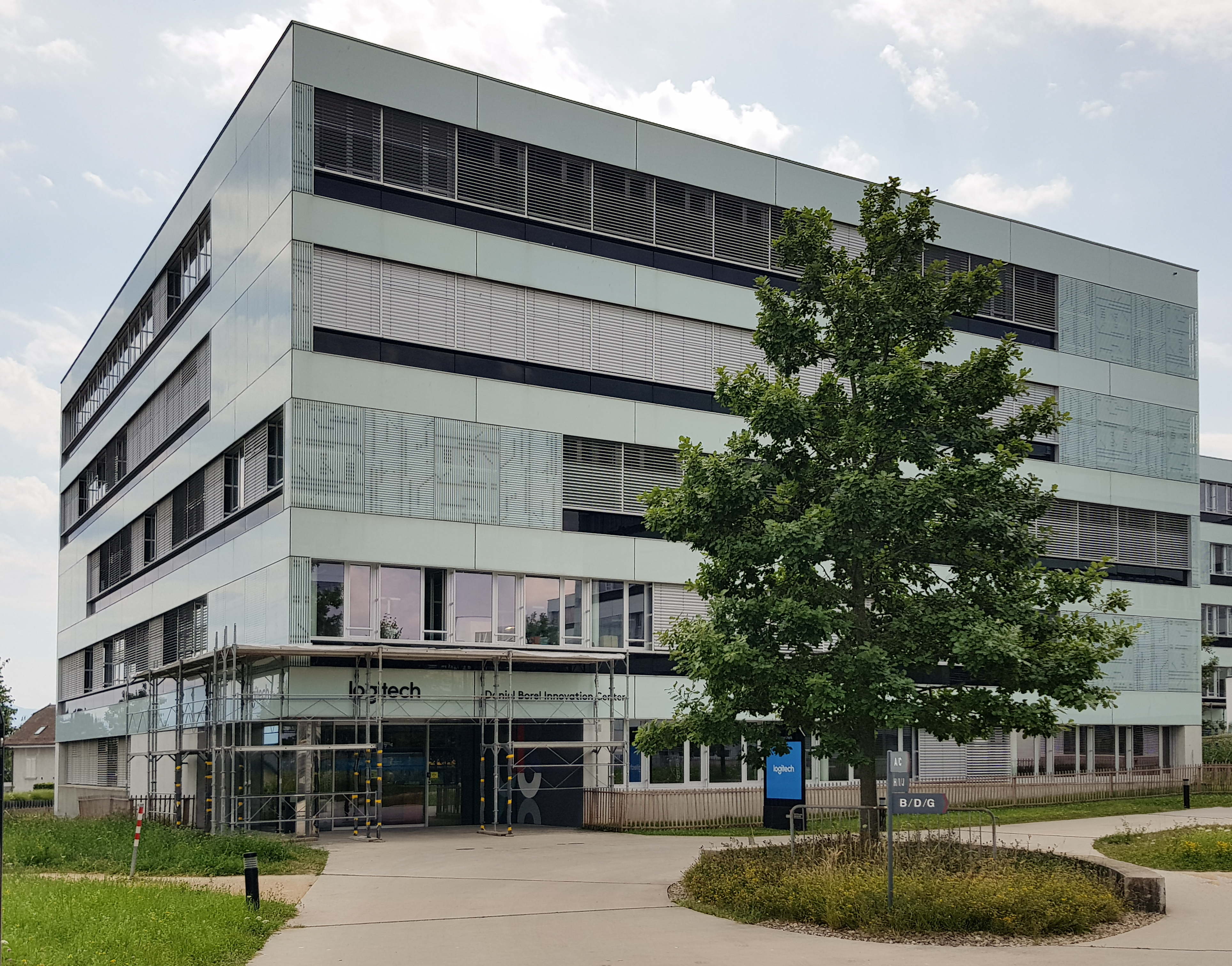 This is the site of the Logitech offices in Lausanne. The building is situated within the Innovation Park complex at the École Polytechnique Fédérale de Lausanne (EPFL).